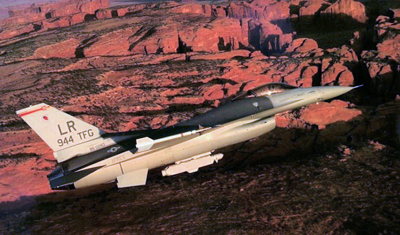 AFRES F-16C #86240 from the 944th TFG low over the Arizonan desert at sunset [USAF photo]